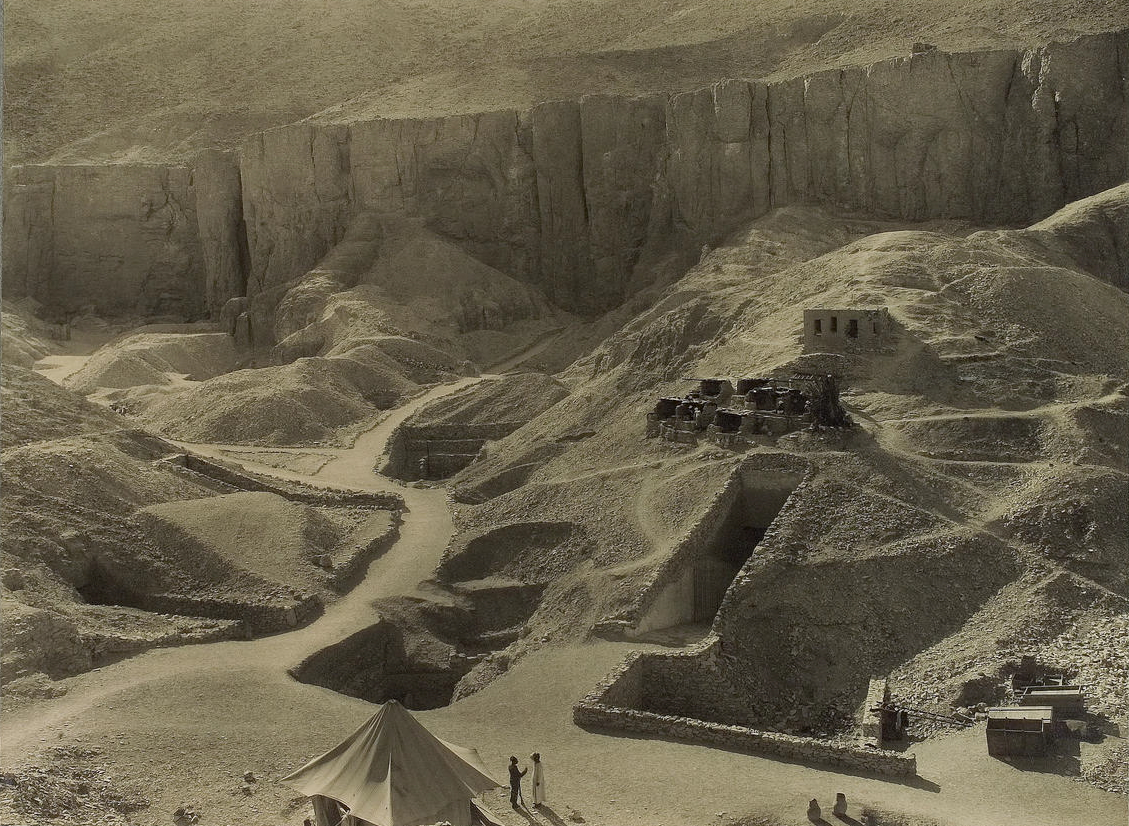 Harry Burton: Tutankhamun tomb photographs: a photographic record in 5 albums containing 490 original photographic prints ; representing the excavations of the tomb of Tutankhamun and its contents. Vol. 1